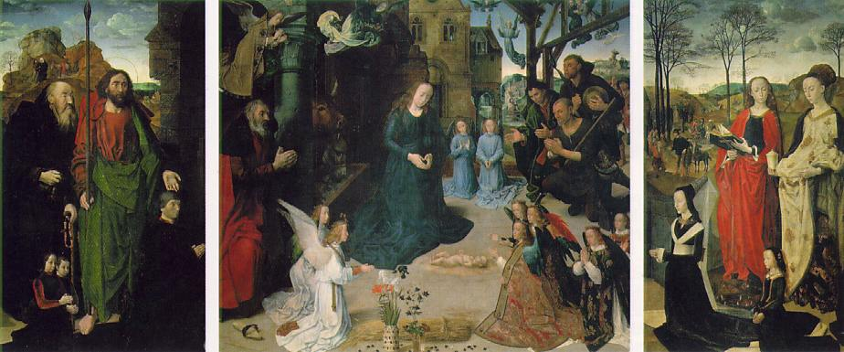 Hugo van der Goes's art